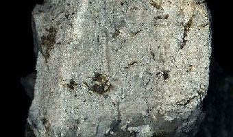 Aplite from Slovakia. Chopok, Nízke Tatry, Western Carpathians